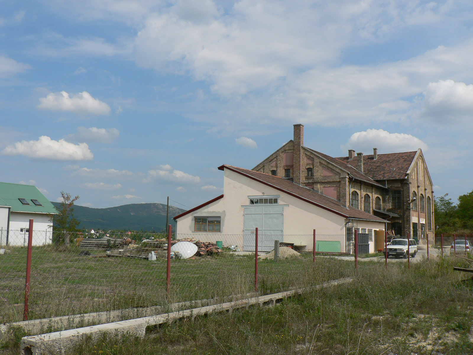 Az előtérben látható sitthalom alatt volt a Solymár-akna nyitópontja